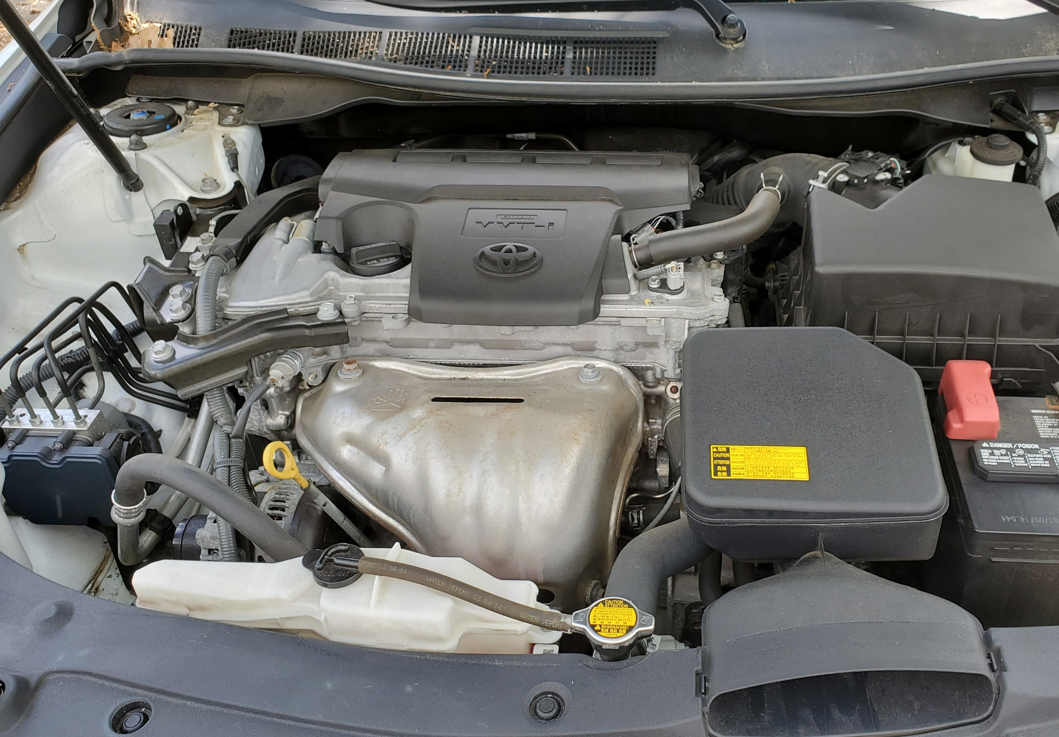 2AR-FE in a 2014 Toyota Camry SE, US model.